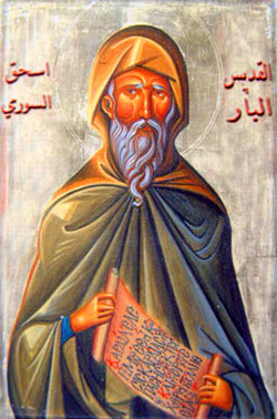 Isaac of Nineveh